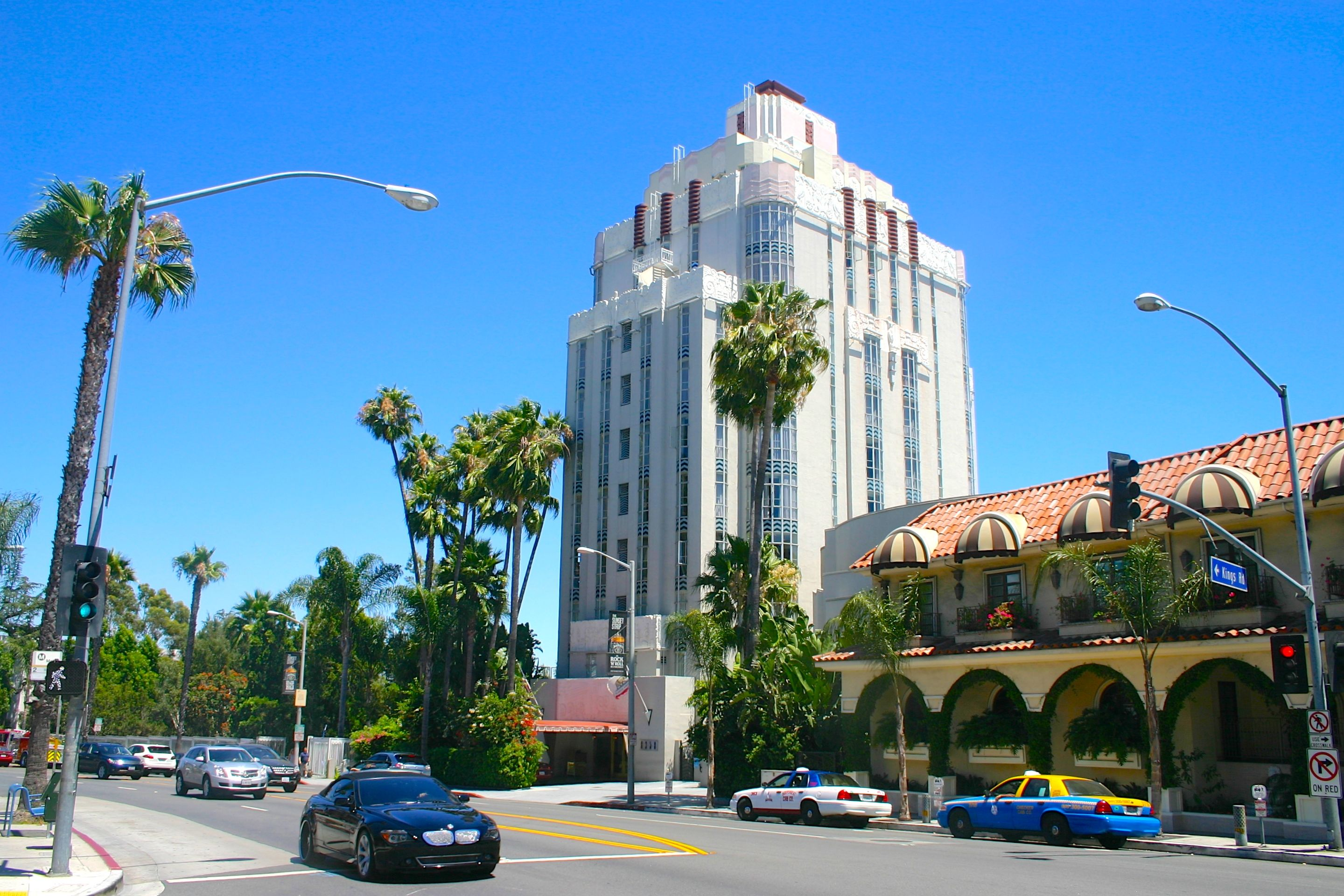 Sunset Tower, 8358 Sunset Blvd. West Hollywood